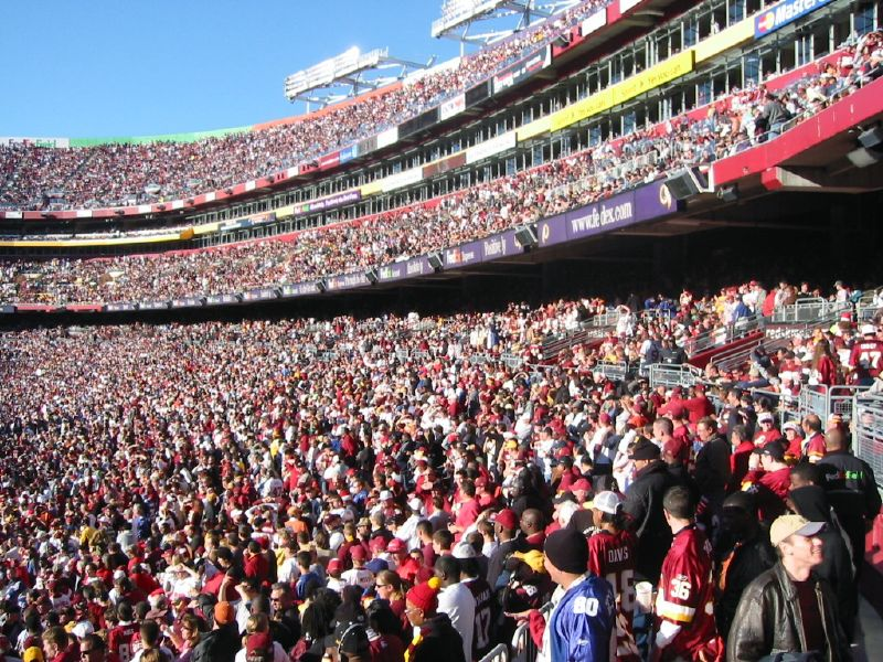 Washington Redskins fans at FedEx Field in December 2005.